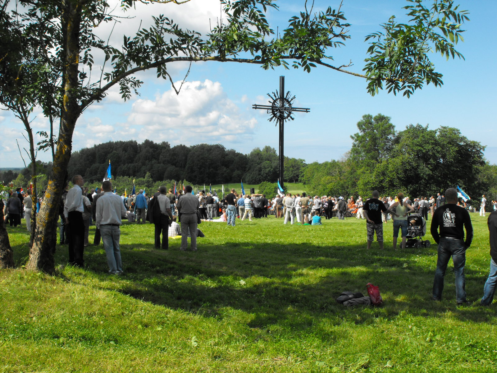 Memorial service on the 65th anniversary of the battles on the Sinimäed hills in 1944, where a number of veterans attended including including members of the W:20th Waffen Grenadier Division of the SS (1st Estonian).